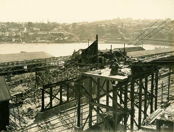 New Lavender Bay Station. Escalators being erected Dated: 10/04/1924 Digital ID: 12685_a007_a00704_8722000082r Rights: We'd love to hear from you if you use our photos. Many other photos in our collection are available to view and browse on our website using Photo Investigator.